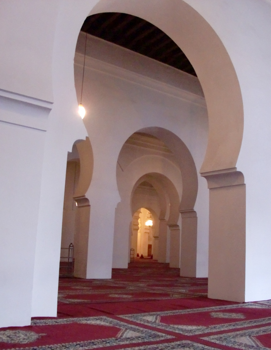 Al-Karaouine University (Al-Qarawiyyin) in the city of Fes, Morocco